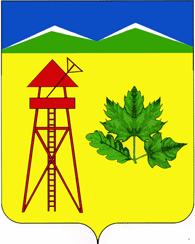 Coat of arms of Ajmetovskaya, Labinsk Raion, Krasnodar Krai, Russia